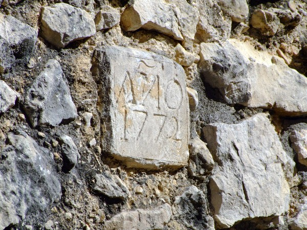 Building date of Abdet's trinquet: 1772